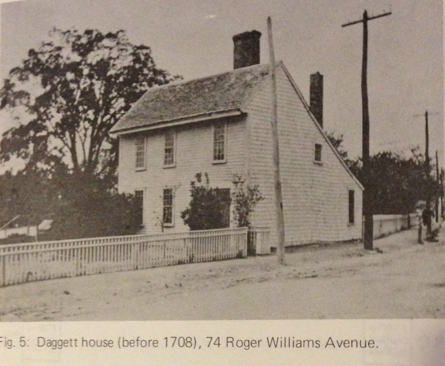 Nathaniel Daggett House - built ca 1690.